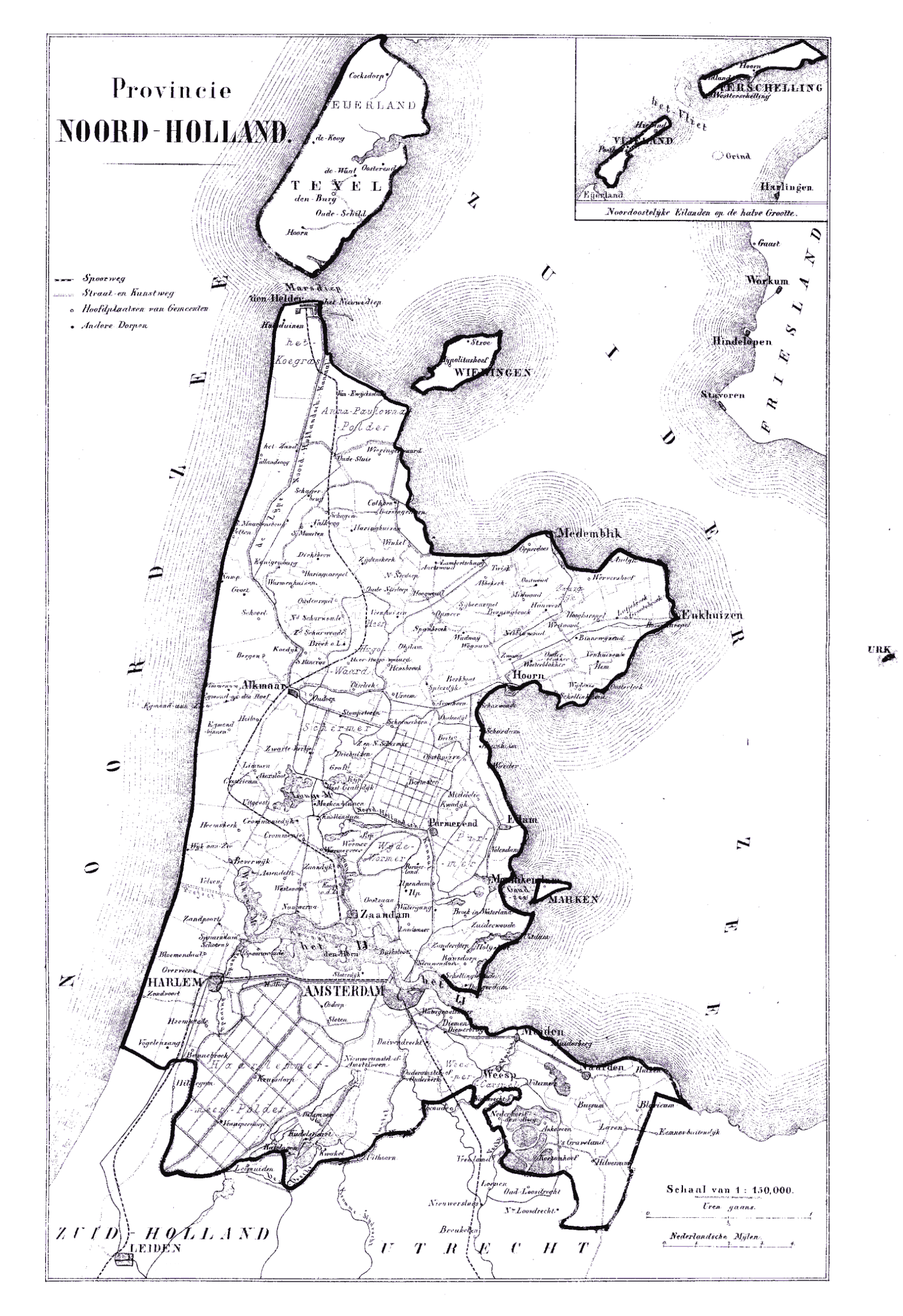 Historic map of North Holland, the Netherlands